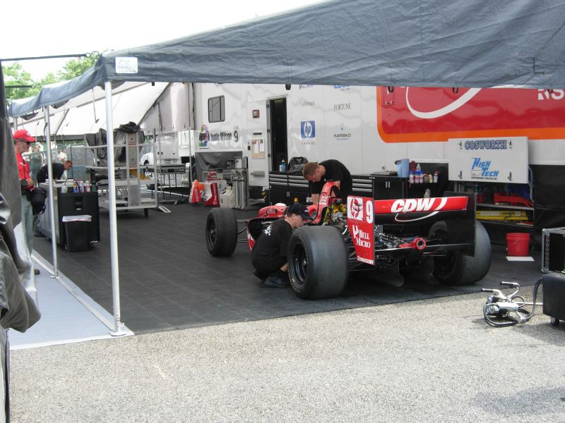 Neel Jani #9 PKV Racing racecar in the pits at the en:2007 Steelback Grand Prix.